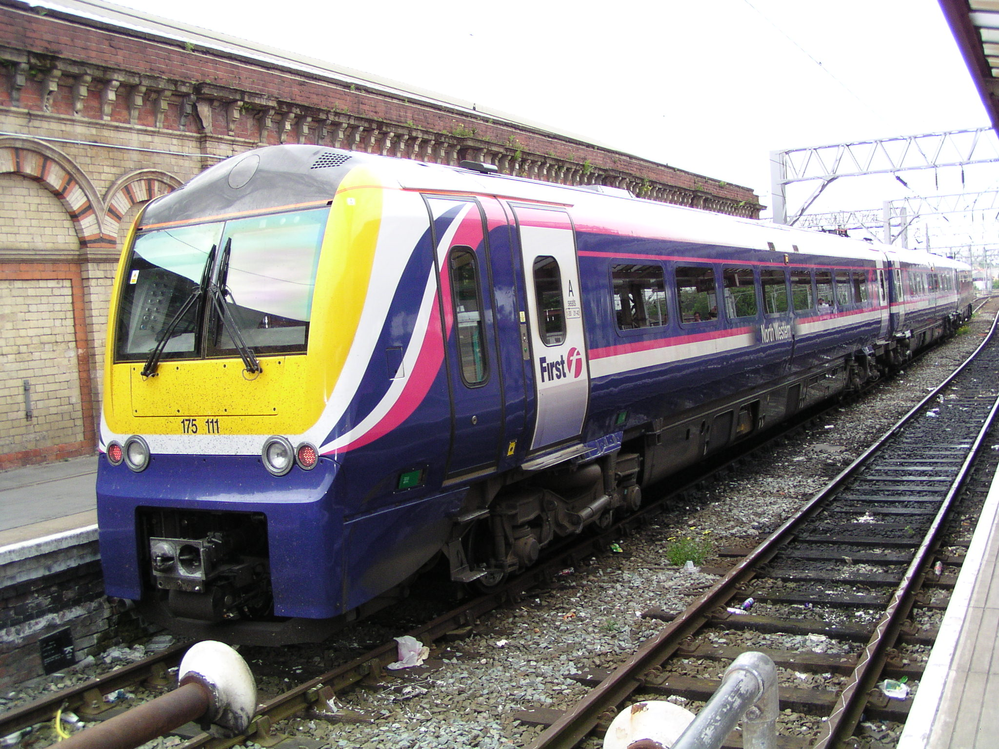 BR Class 175, no. 175111 'Brief Encounter' at Crewe on 1st June 2003.